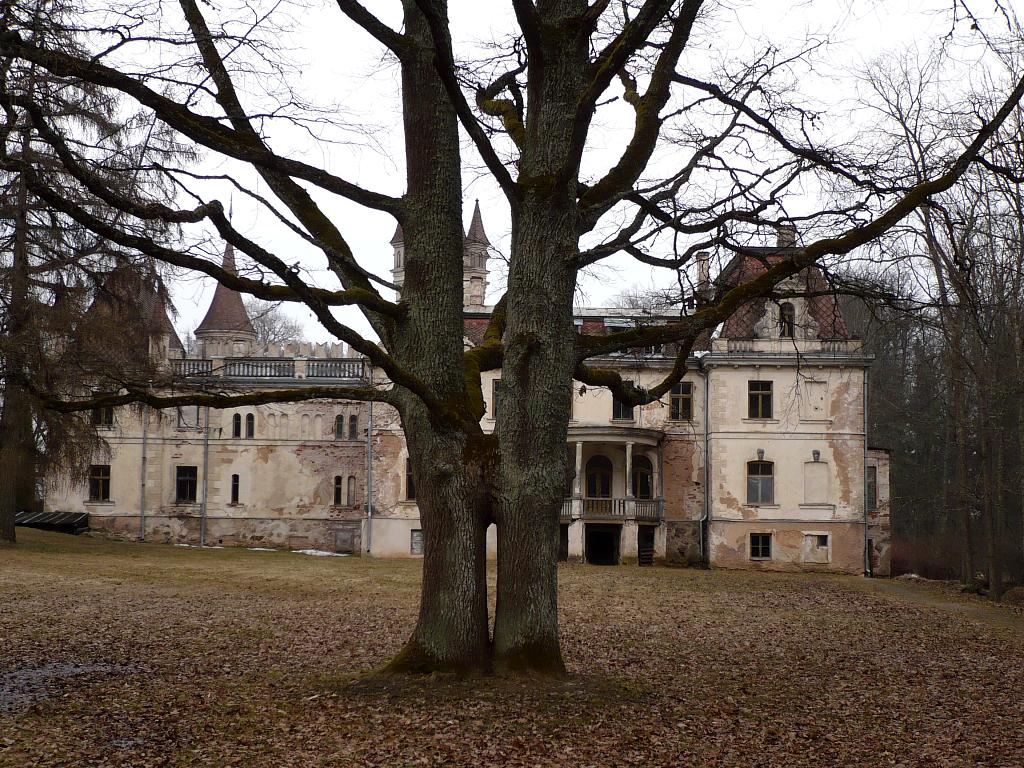 Twin Oaks at Stāmeriena Palace